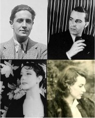 Ivor Novello, Alfred Lunt, Lynn Fontanne and Judy Campbell composited for use in article on Noël Coward as four of the actors who starred in Coward's plays.